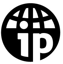 This image is the Logo of the World Bank's Inspection Panel.